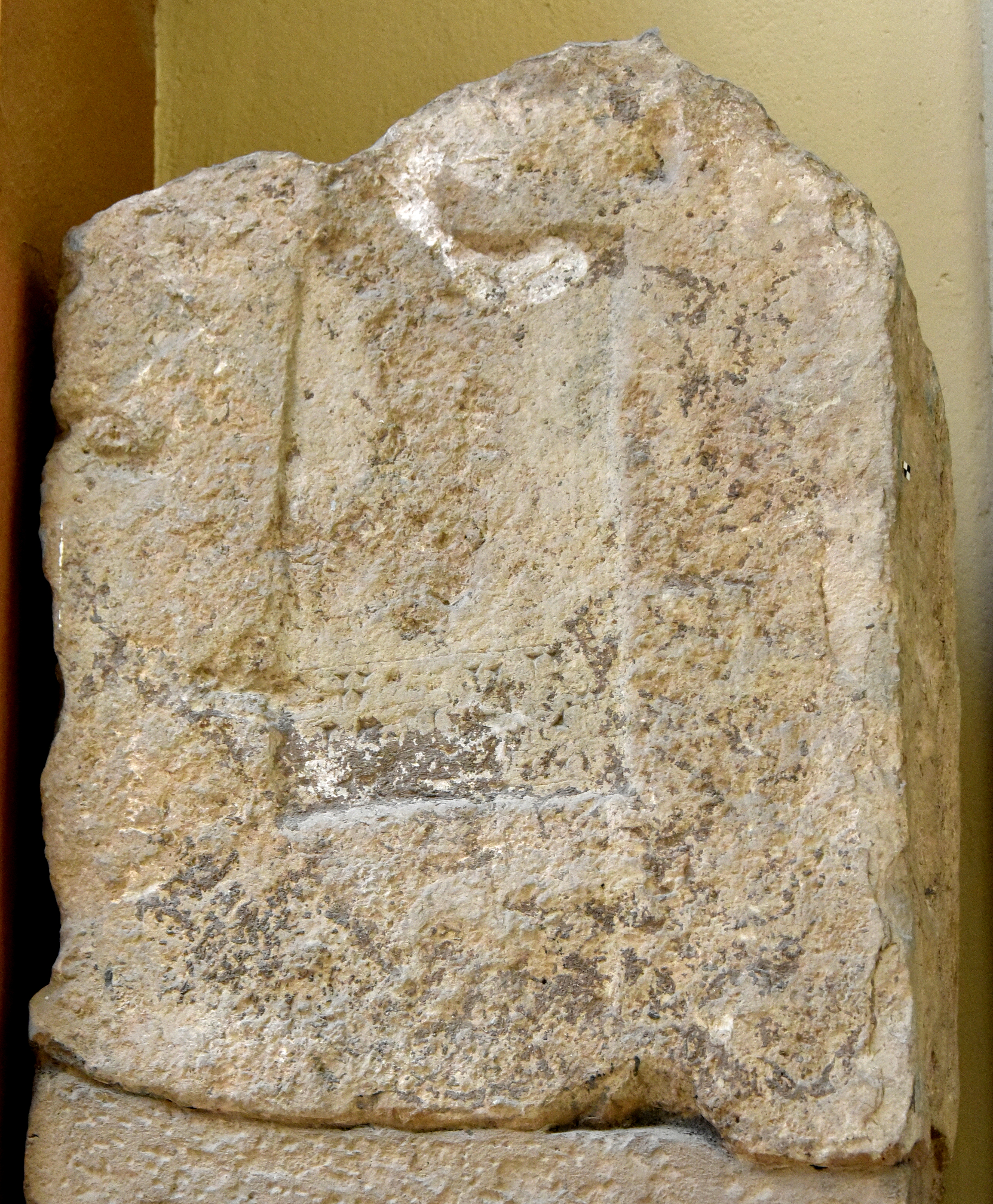 Limestone fragment (upper part) of the stele of the Assyrian king Eriba-Adad I, 1380–1353 BCE. From the Rows of Stelae (Stelenreihen) at Assur (Ashur), Iraq. Pergamon Museum, Berlin, Germany.